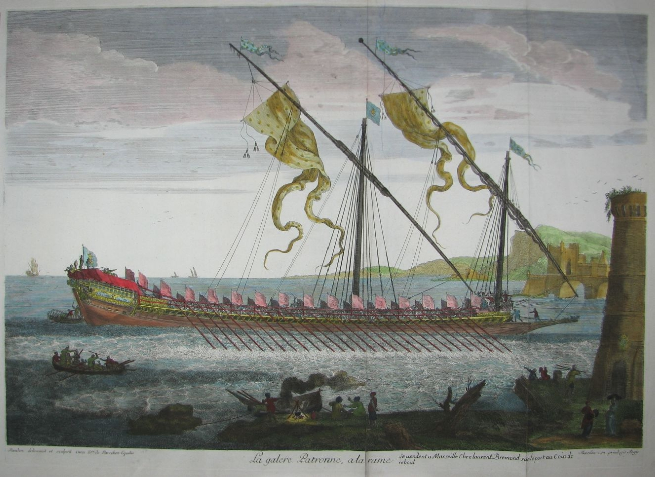 An engraving of a French patronne galley from Plan de Plusieurs Batiments de Mer avec leurs Proportions (c. 1690). Engraving by Claude Randon.